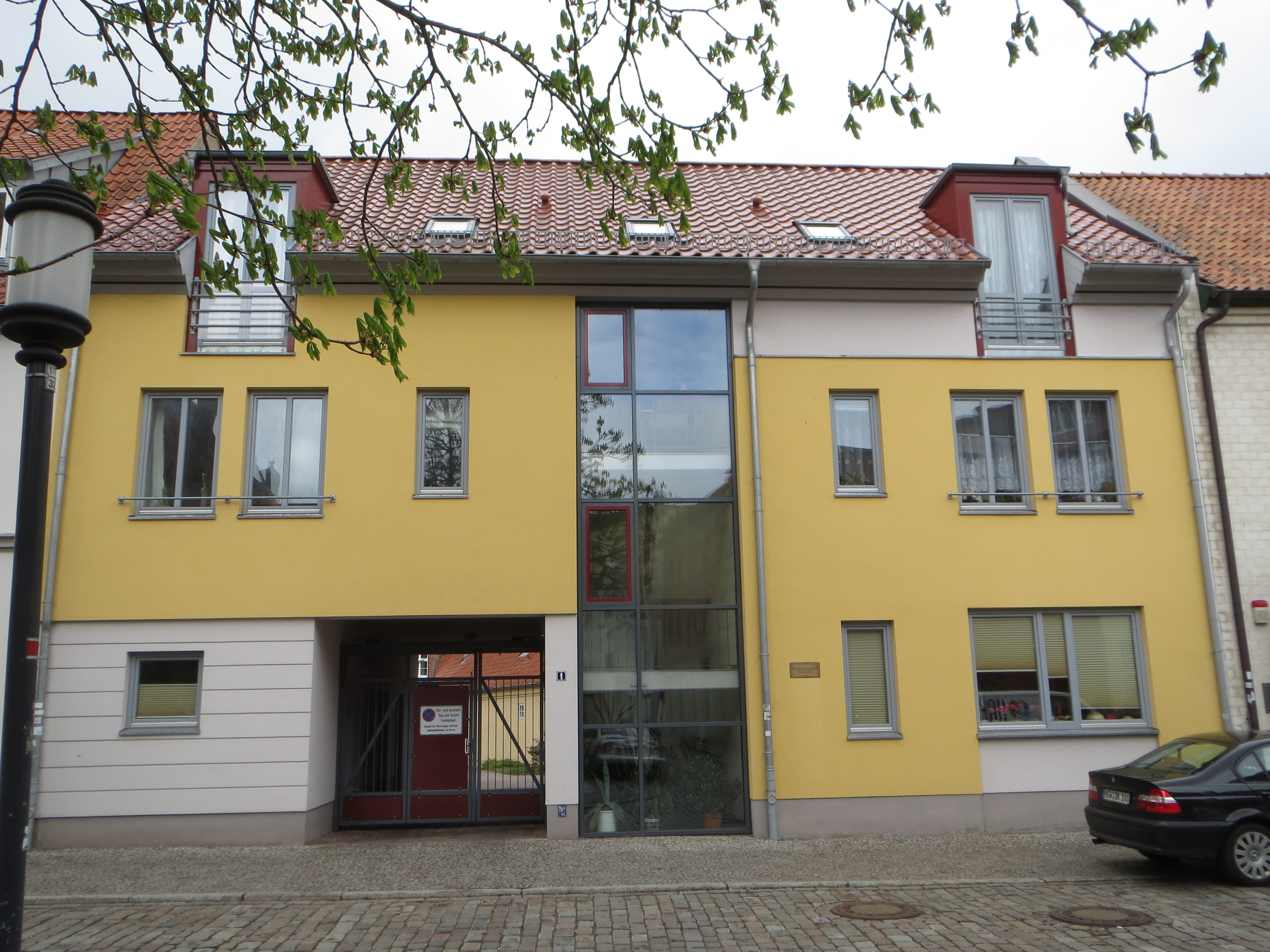 Caspar-David-Friedrich-Strasse 1, Sitz der Peter–Warschow–Sammelstiftung